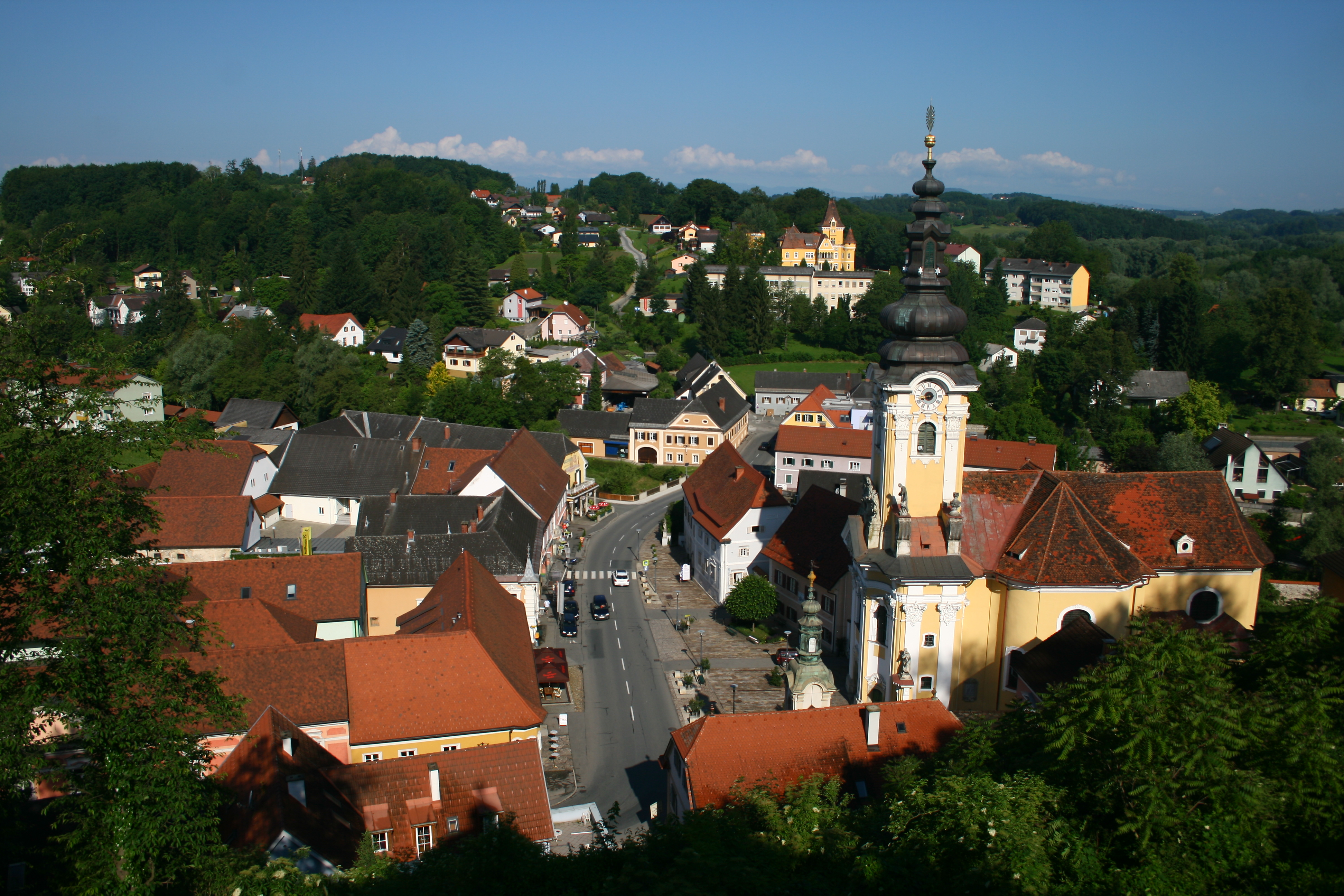 Ehrenhausen, Styria, Austria